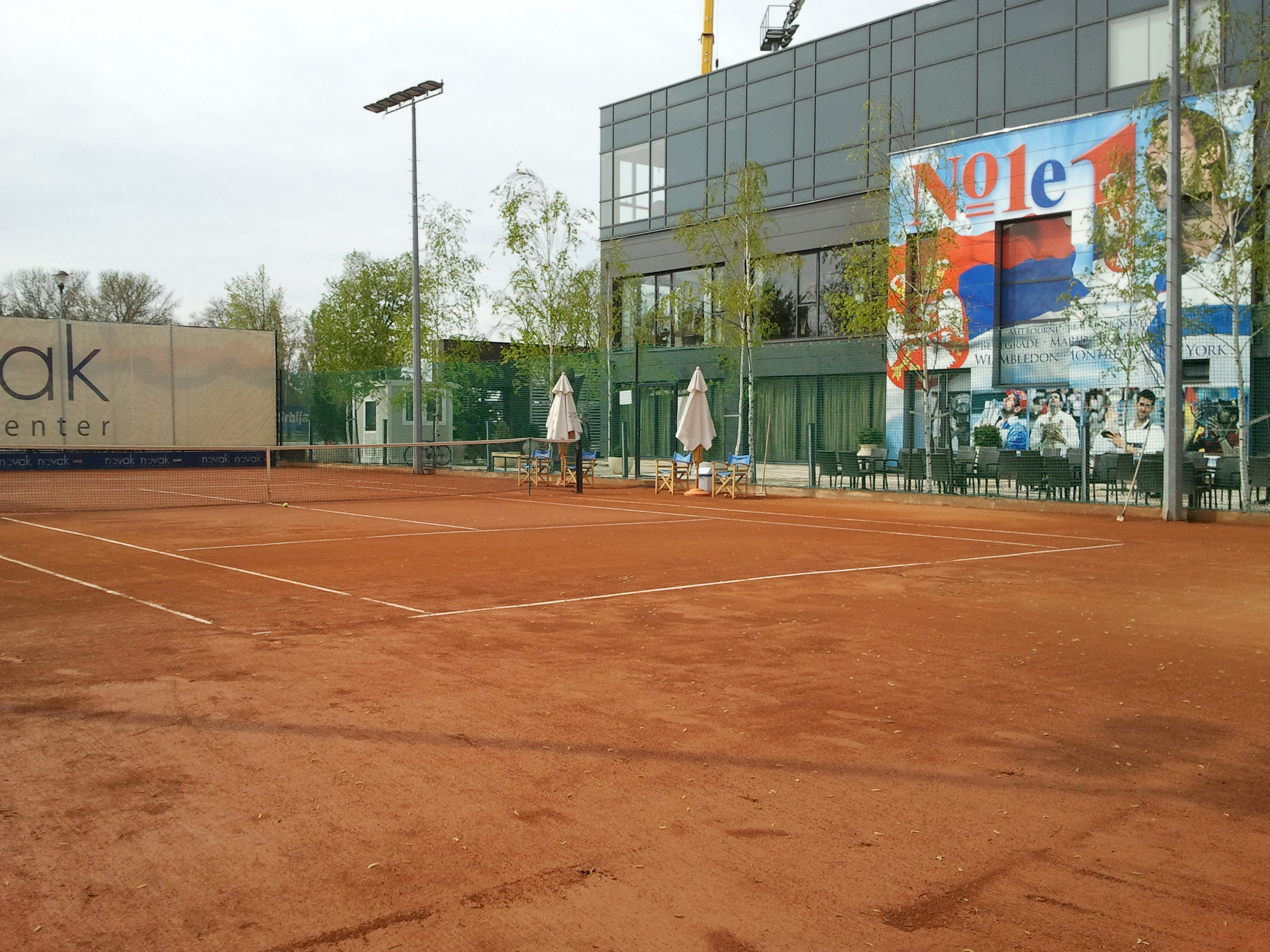 Serbia Open clay courts. Dorćol, Belgrade, Serbia.